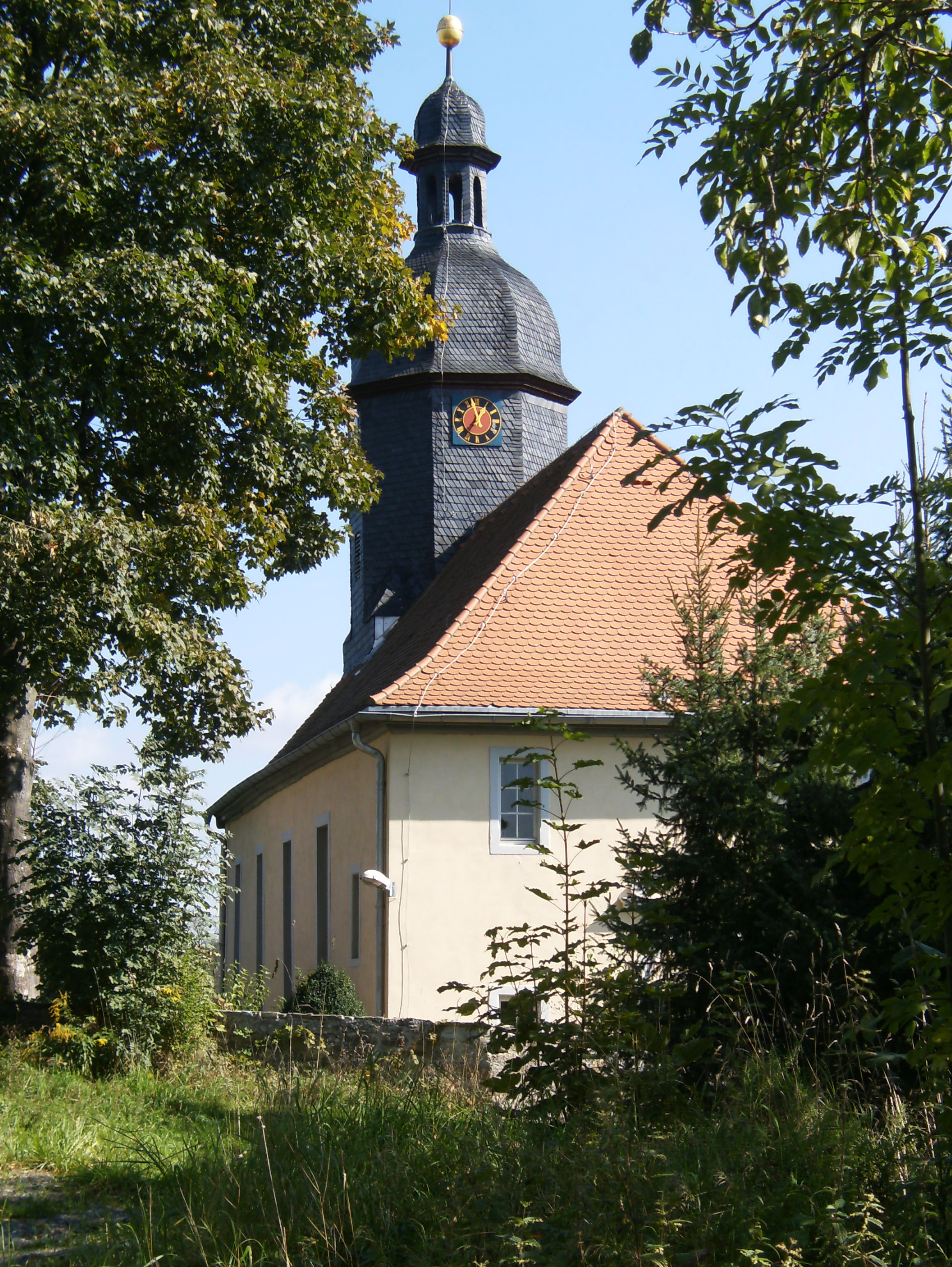 Church of Reichenbach (Thuringia) / Saale-Holzland-Kreis.